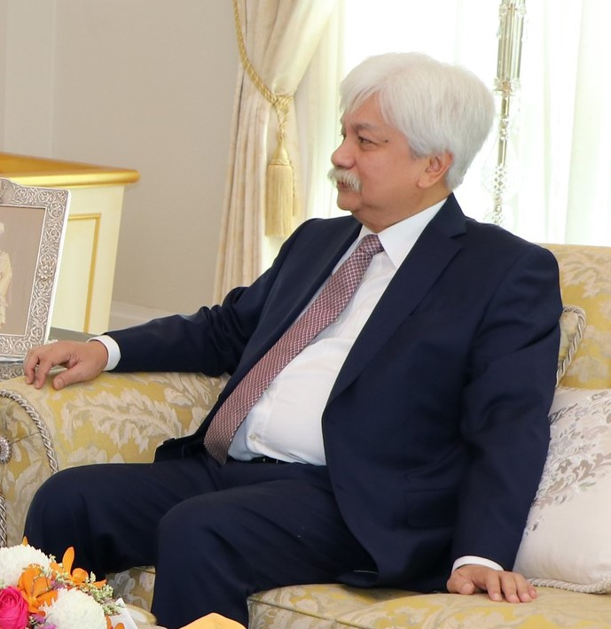 His Royal Highness Tuanku Muhriz, The Yang Di-Pertuan Besar (Grand Ruler) of Negeri Sembilan